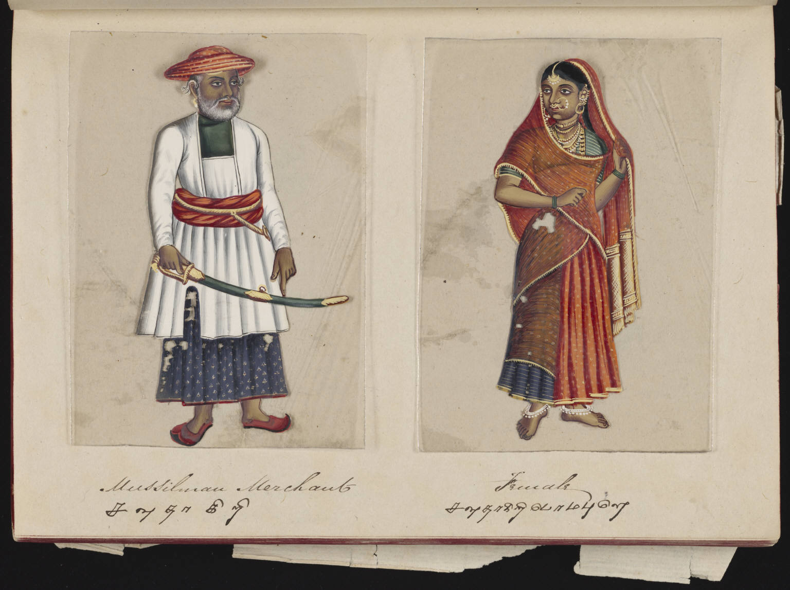 A page from the manuscript Seventy-two Specimens of Castes in India, which consists of 72 full-color hand-painted images of men and women of the various castes and religious and ethnic groups found in Madura, India at that time. Each drawing was made on mica, a transparent, flaky mineral which splits into thin, transparent sheets. As indicated on the presentation page, the album was compiled by the Indian writing master at an English school established by American missionaries in Madura, and given to the Reverend William Twining. The manuscript shows Indian dress and jewelry adornment in the Madura region as they appeared before the onset of Western influences on South Asian dress and style. Each illustrated portrait is captioned in English and in Tamil, and the title page of the work includes English, Tamil, and Telugu.